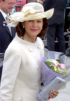 Queen Silvia of Sweden. Picture is taken in Oslo, june 15, 2005, during the 100- year celebration to the end of the Swedish - Norwegian union.